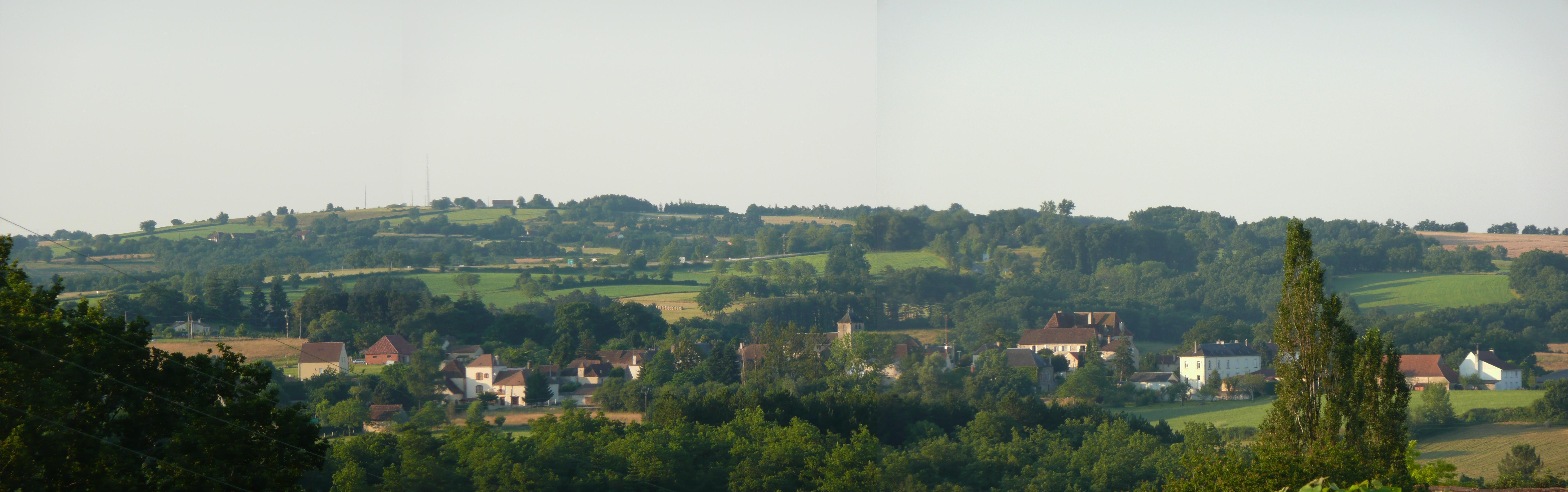 Panorama of Saint-Projet in the Lot département of south-western France.